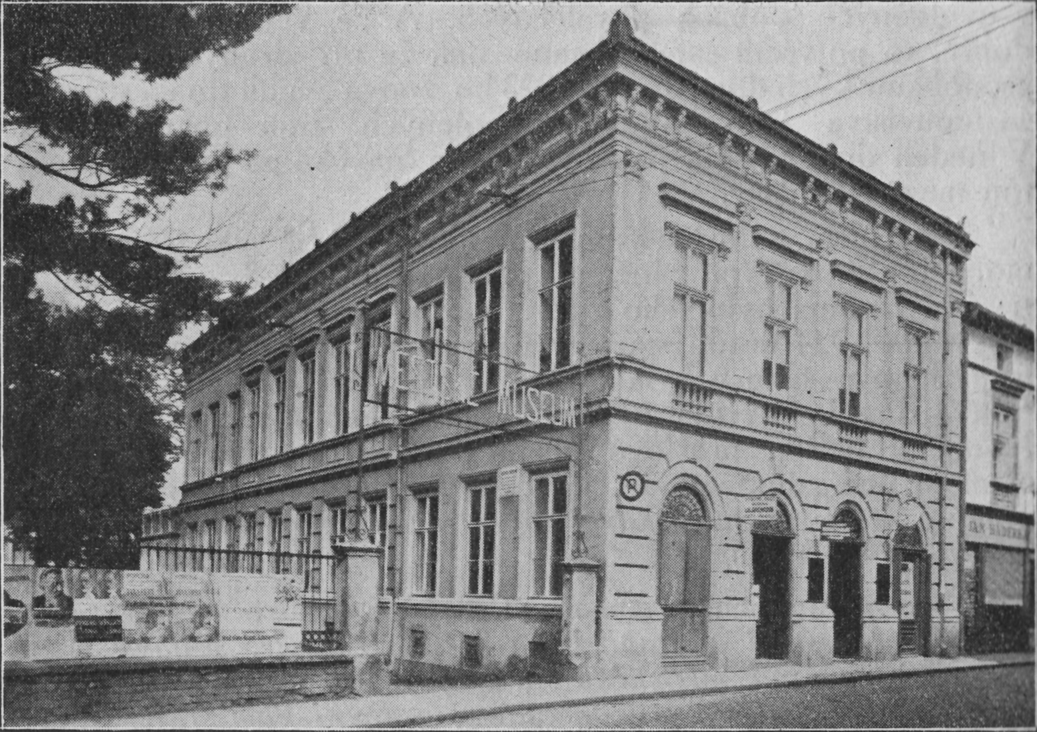 Historical picture the building in today's street 1. máje no. 800 in Litovel and the entrance to the Litovel museum next to it. The building used to belong to Jan Smyčka, a physician, archeologist, local politician and the founder of the Litovel museum.